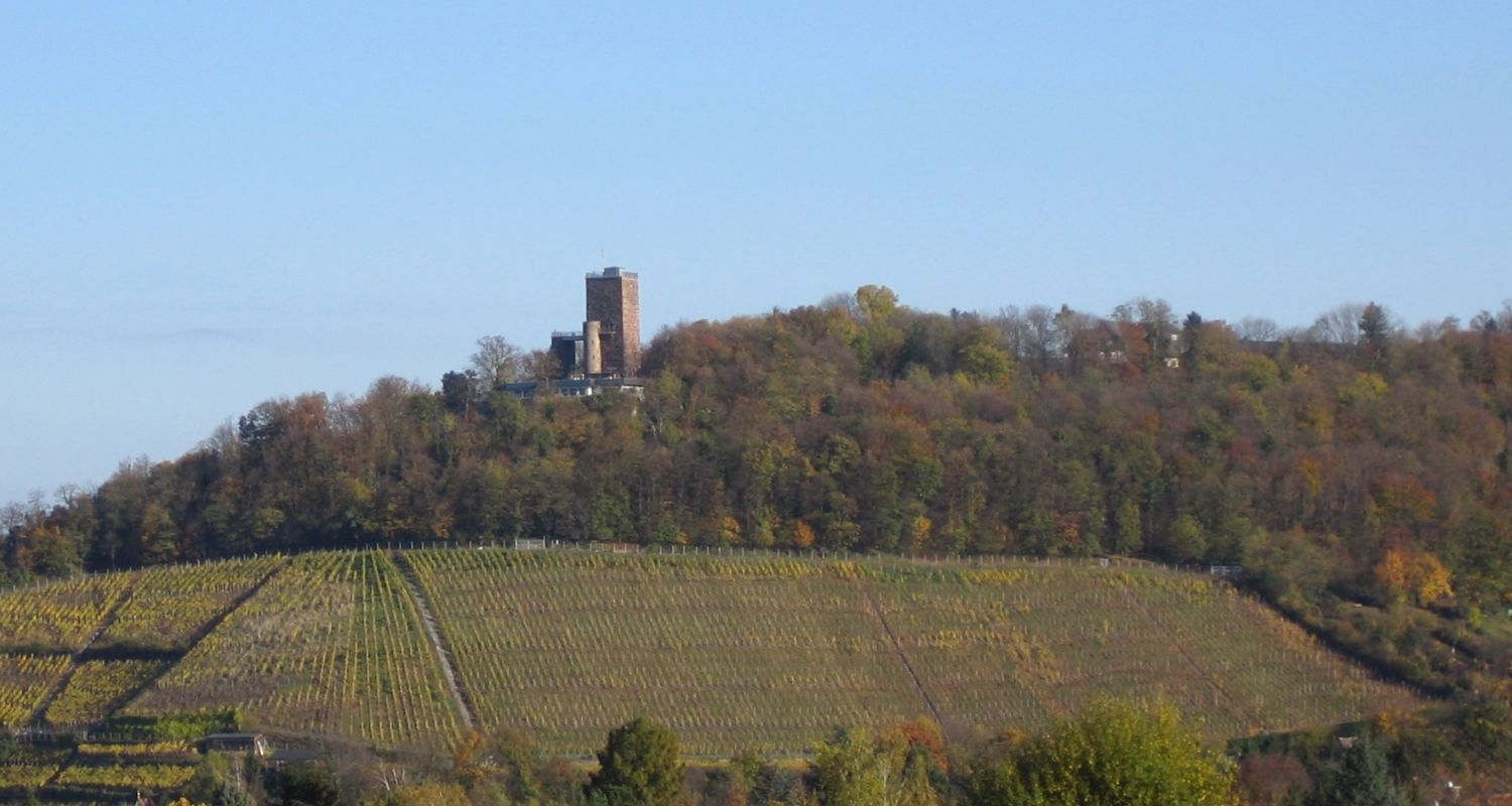 Mt. Turmberg in the city of Karlsruhe (Germany), in the district of Durlach, with the tower on top, as seen from Mt. Geigersberg (south of the Turmberg). The flat building is the upper station of the Turmbergbahn railway. The buildings to the right inside the woods belong to the Sportschule Schöneck (sports school) institution.